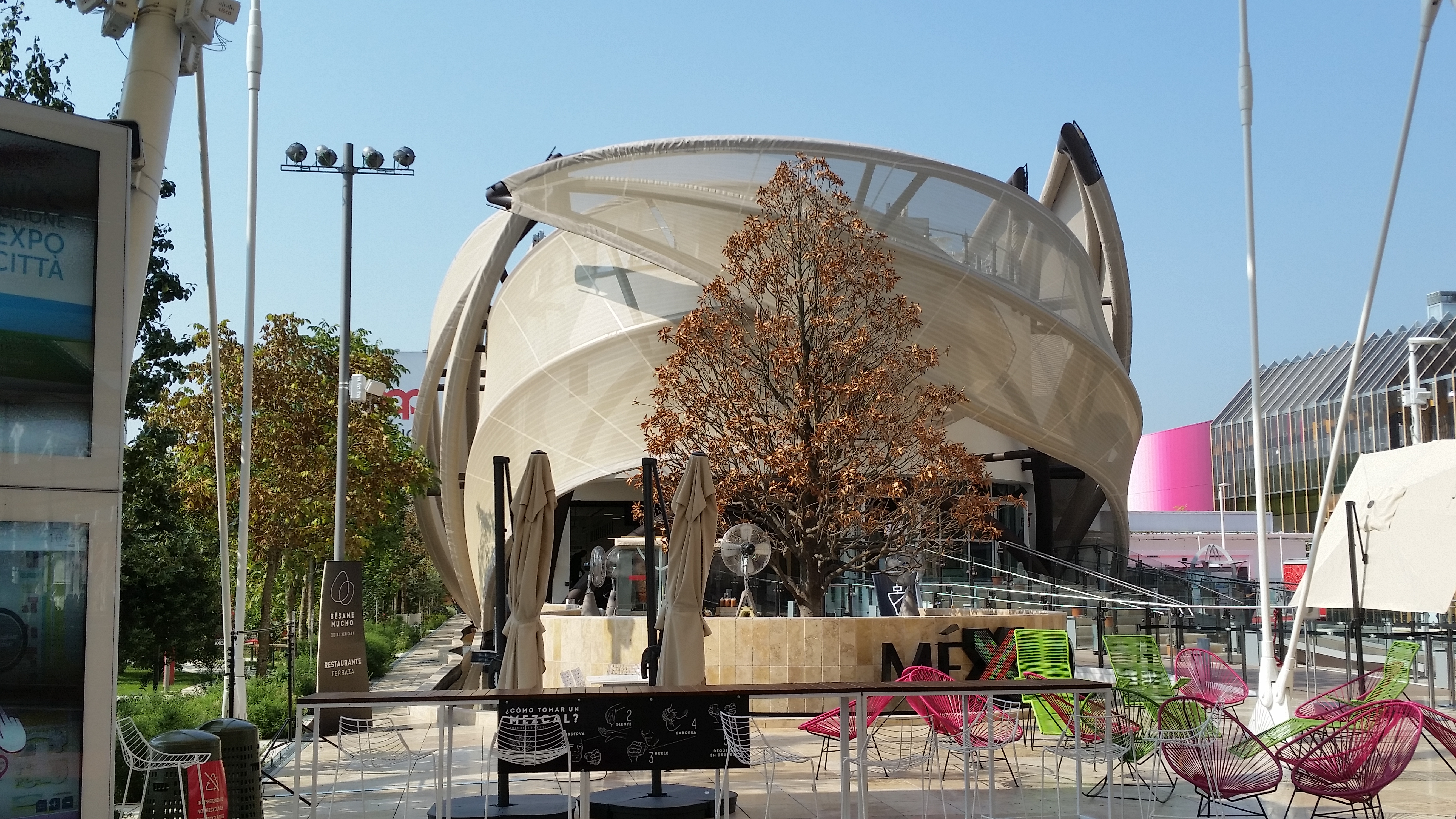 Pavilion of the Expo 2015 located in Milano (Italy)